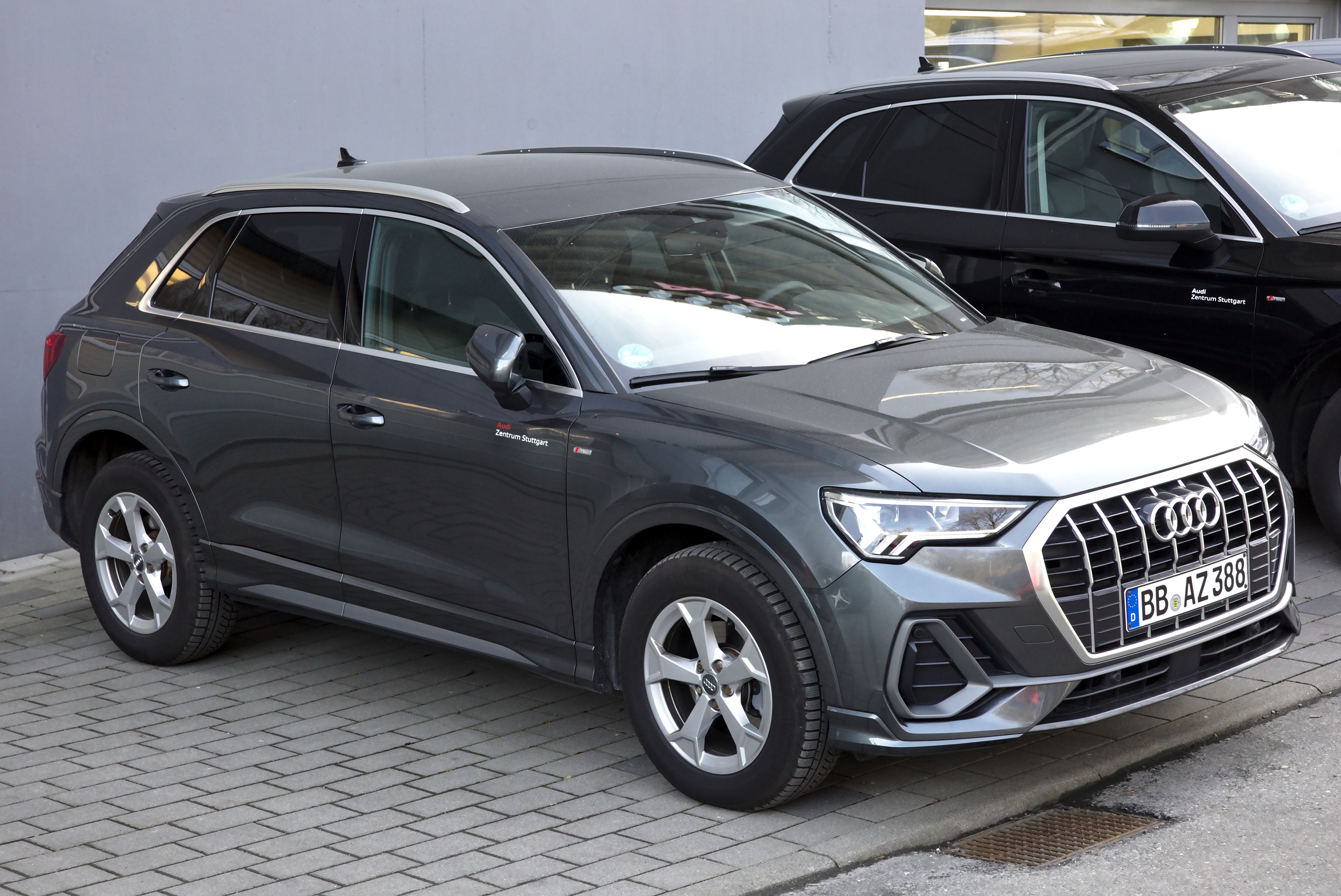 Audi Q3 F3 in Stuttgart-Vaihingen